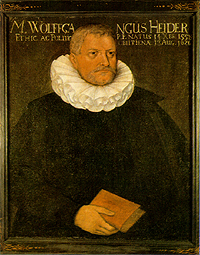 Wolfgang Heider (1558-1626) German moral philosopher